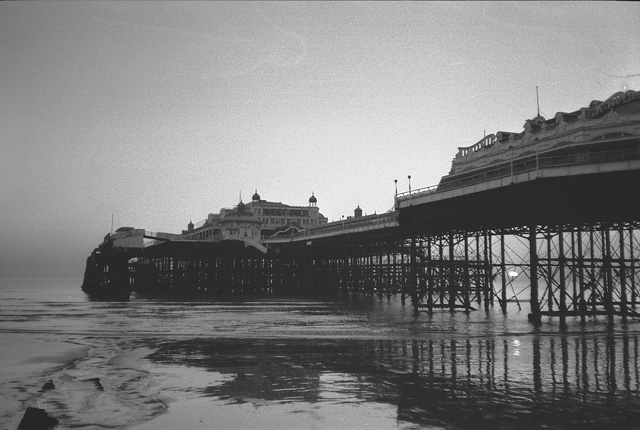 West Pier, Brighton, Great Britain. Brighton's second pier was built in 1866 by Eugenius Birch. This picture was taken a couple of years before it closed in 1975 - well past its heyday but still in much better shape than it is today.